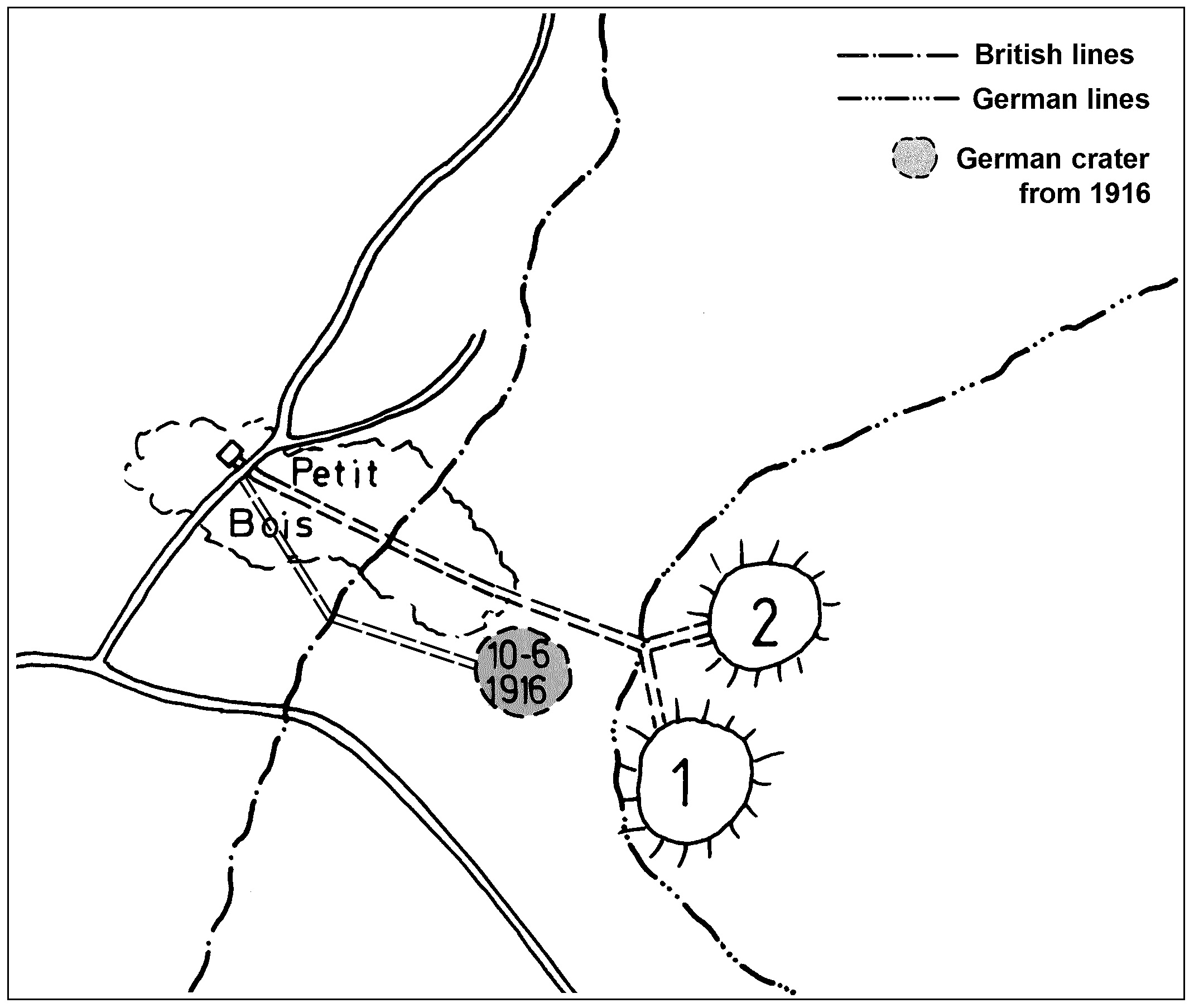 Plan of the mines at Petit Bois, part of the mines placed by the tunnelling companies of the Royal Engineers in the Battle of Messines (1917). This drawing is based on the plans published in Roger Lampaert, De Mijnenoorlog in Vlaanderen 1914–1918, Roesbrugge/Belgium (Drukkerij Schoonaert) 1989 and Peter Barton/Peter Doyle/Johan Vandewalle, Beneath Flanders Fields: The Tunnellers' War 1914-1918, Staplehurst (Spellmount) 2005.